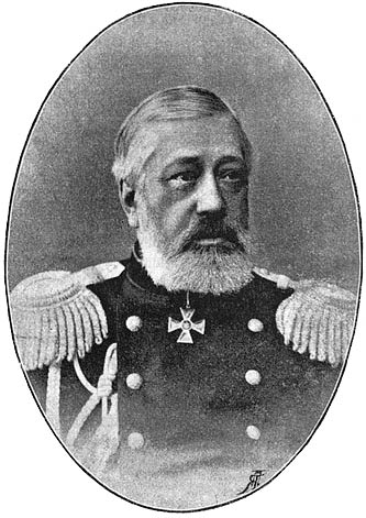 Leer, Genrich Antonovitch.